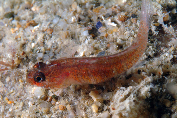 Odondebuenia balearica photographed near Calafuria (Tuscany, Italy). Depth 15 m. Photo by Stefano Guerrieri.